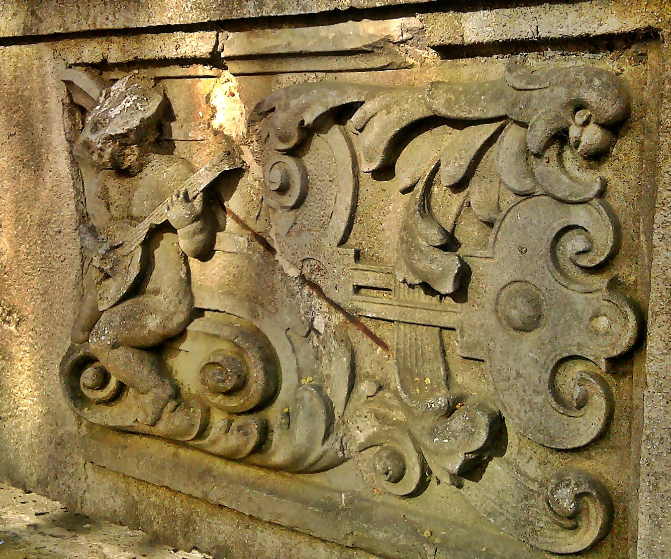 Lute player on the mannerist grotesque in Gdansk, 16'th or 17'th century, artist unknown.